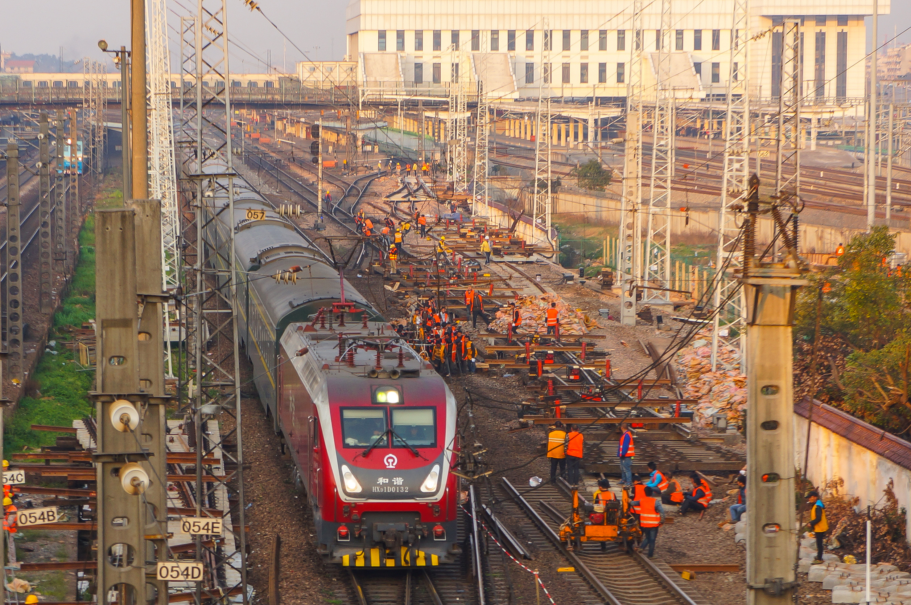 201703 HXD1D-0132 hauls Z100 passes Jinhua Station by using the line 4 beside the platform 3, line 5-8 are under construction.